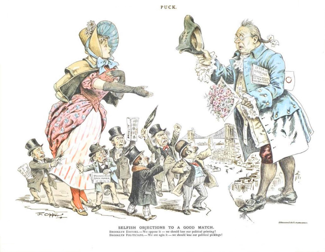 1893 political cartoon about the opposition in Brooklyn to consolidation with the City of New York. New York City is depicted as a male suitor (right). The people of Brooklyn are depicted as a woman wanting marriage (left). Newspaper editors and politicians of Brooklyn, depicted as the woman's children, hold her back from "marriage" (consolidation) for fear of losing their power.